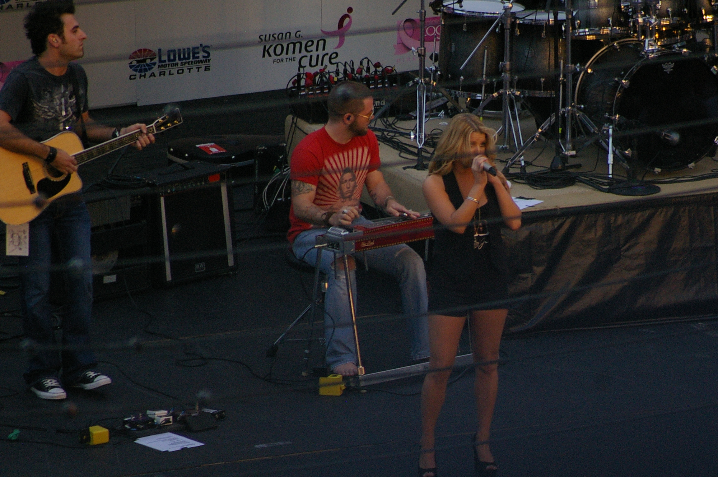 Jessica Simpson Pre-race show at Lowe's Motor Speedway 2008.